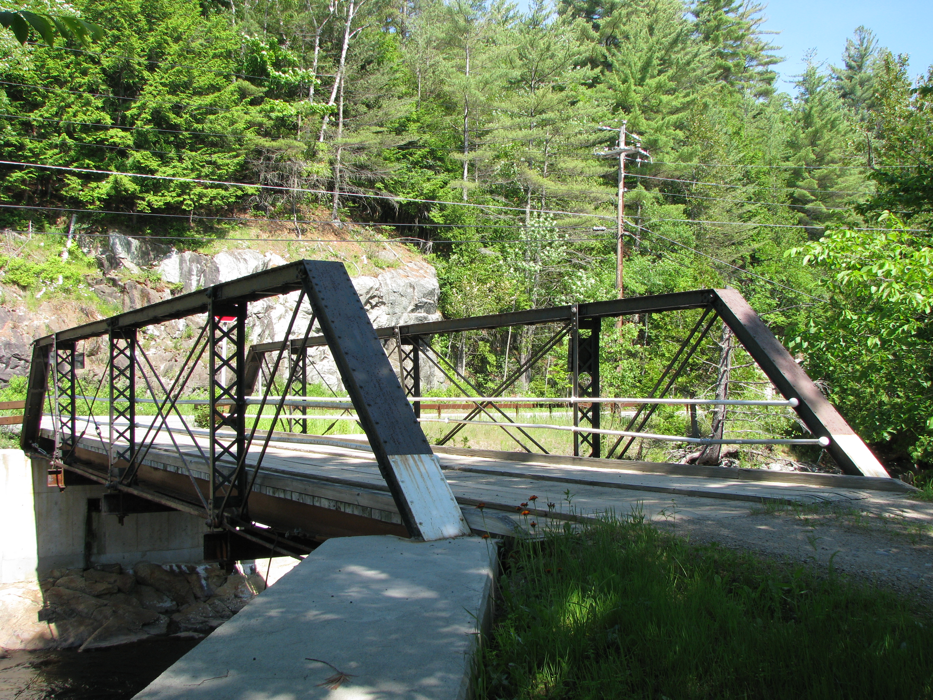 Beers Bridge, Keene Valley, New York